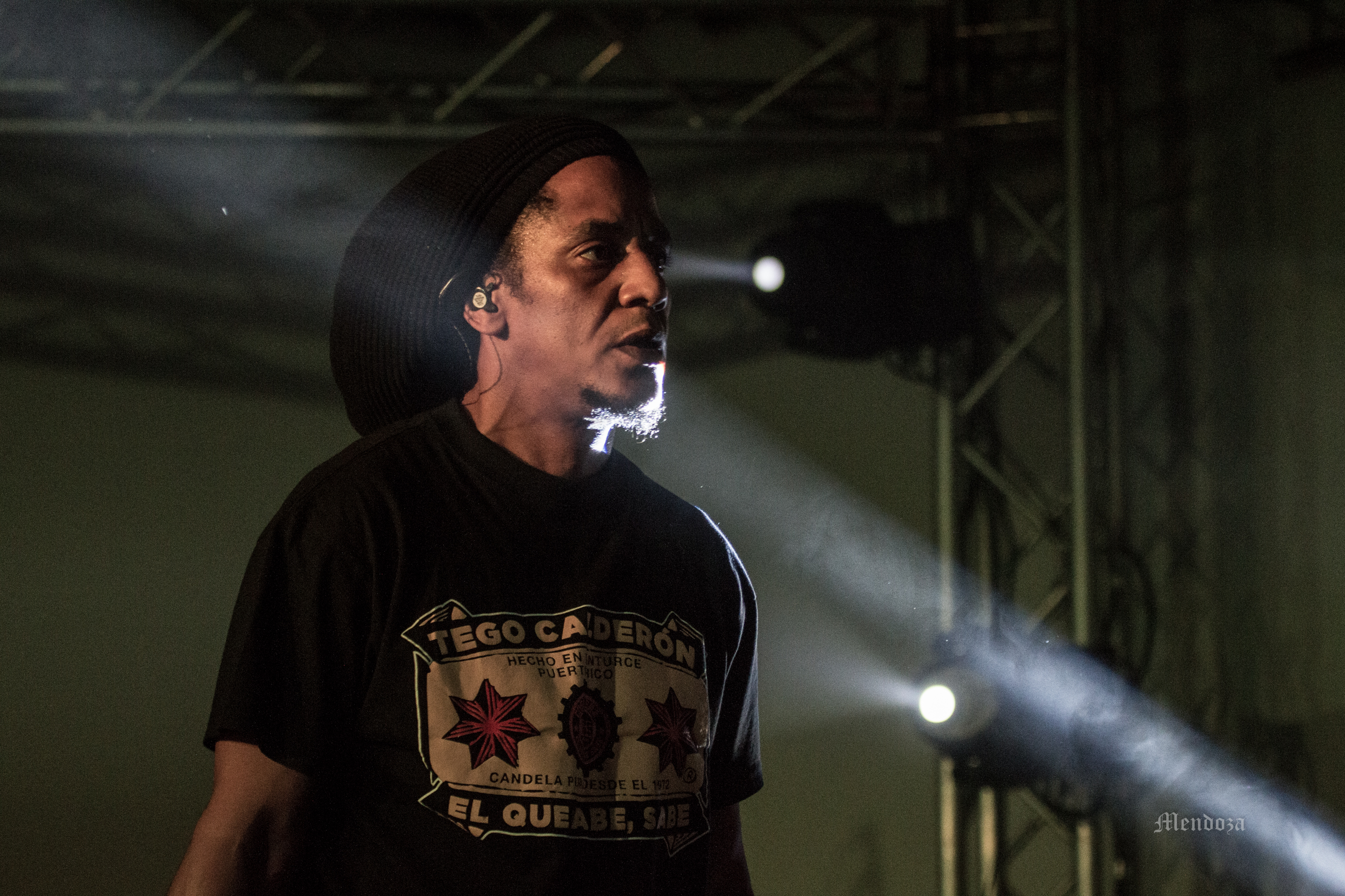 Tego Calderon singing at the laredo coliseum